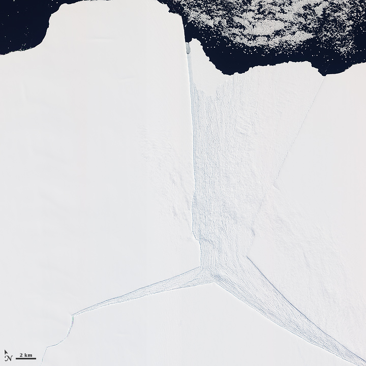 Several glaciers in East Antarctica, including the Lambert Glacier, share the same route to the ocean through the Amery Ice Shelf. Although comprising just a tiny portion of the Antarctic coastline, this ice shelf drains roughly 16 percent of the East Antarctic Ice Sheet. The Amery deposits ice into the ocean through the natural, cyclical process of iceberg calving—a process that can take decades to complete. The Advanced Land Imager (ALI) on NASA’s Earth Observing-1 (EO-1) satellite captured this natural-color image on January 27, 2012. It shows a portion of the Amery Ice Shelf, where three giant cracks, or rifts, meet. The largest rift runs in the same direction as the ice flow, and widens toward the edge of the ice shelf (image center). Smaller rifts extend toward the east and west, and the tip of the western rift narrows and curves significantly (image lower left). These rifts lie along the western edge of a feature glaciologists have nicknamed Amery’s “loose tooth.” The tooth is a giant tabular iceberg that has been gradually loosening for more than a decade. The overall cycle of iceberg calving on the Amery Ice Shelf is slow, with the last major calving event occurring in the early 1960s. At that time, Amery released an ice island measuring roughly 140 by 70 kilometers. Although slow calving of icebergs has been the norm for the ice shelf, a rapid retreat is possible. Although much smaller than Antarctica’s largest ice shelves—the Ross and Filchner-Ronne—the Amery lies several degrees closer to the Equator. It also has some of the same traits as ice shelves that have retreated on the Antarctic Peninsula, such as extensive crevasses (cracks) and annual surface melt streams